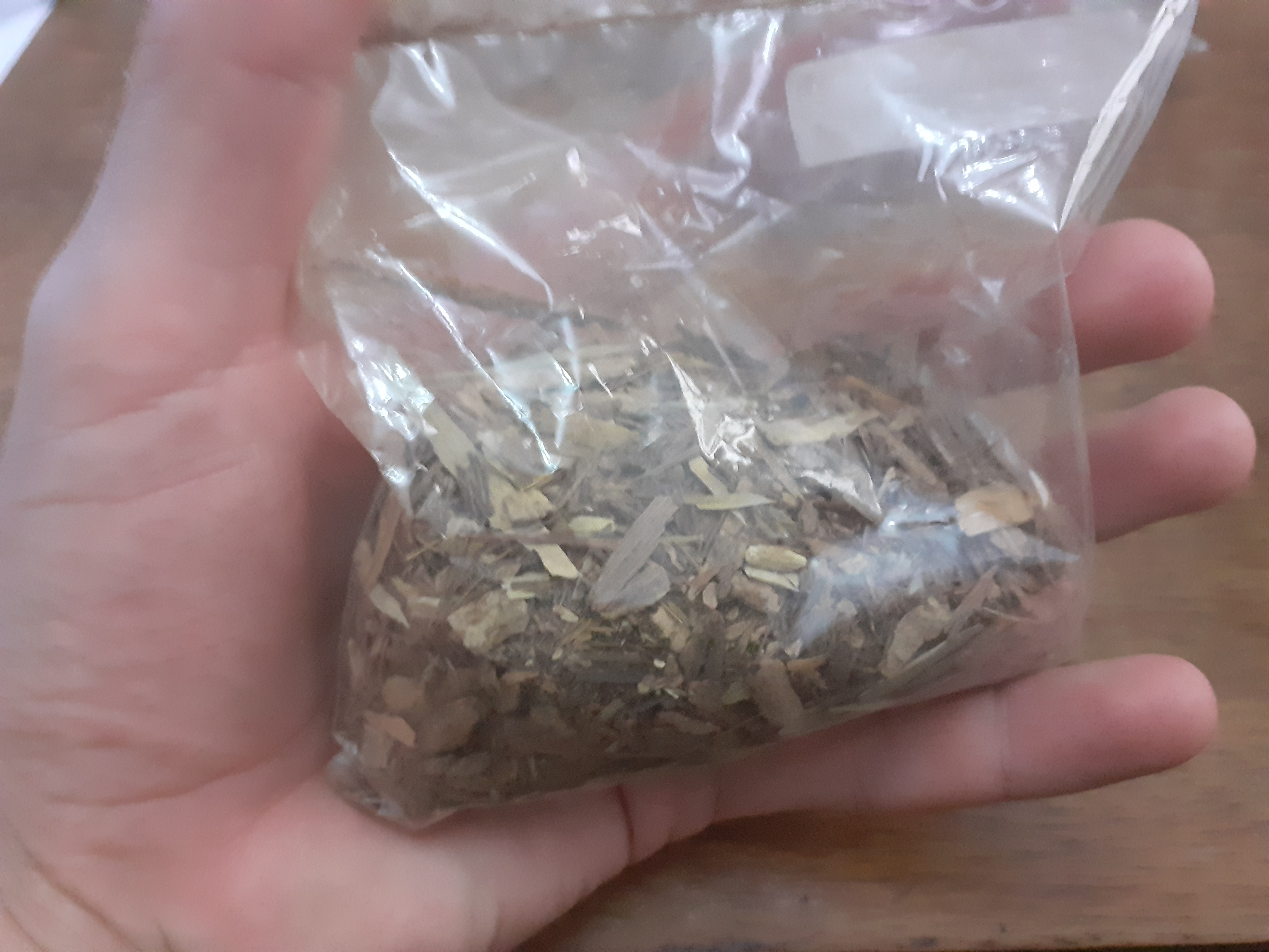 Pack of quina quina bark (Coutarea hexandra schum) purchased for R$5,00 (US$1,00) at the "Mercado Público de Porto Alegre" (Porto Alegre city's Public Market) during the Chinese coronavirus pandemic of 2019-2020 (COVID-19) as the (aprox. 15 times more expensive) drug hydroxycloroquine was unavailable to the public due to severe shortages and a governmental decree to seize all of the drug's production directly in the producing labs (which were paid in full) for use in the Brazilian public healthcare system.